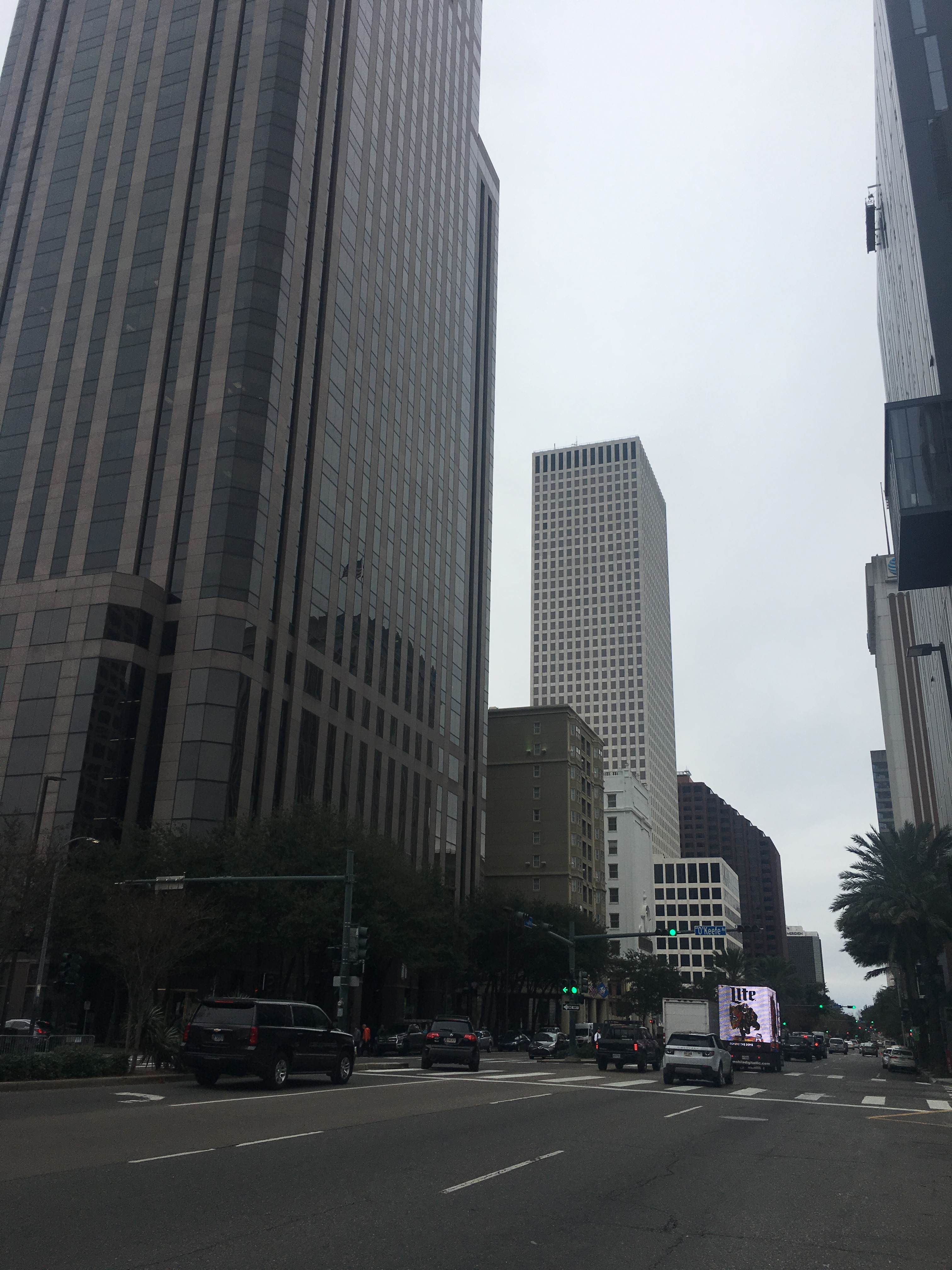 Poydras Street from the west